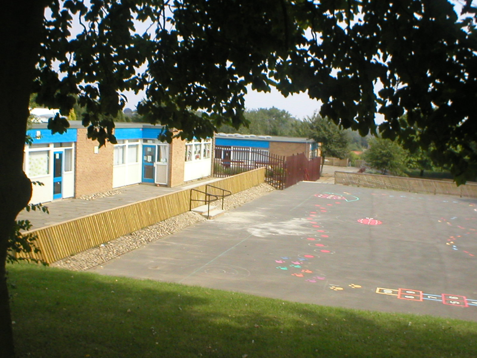 The playground of a small primary school (West Park Primary School, Hartlepool, England) whilst empty. Taken by David Hedley, 2005.